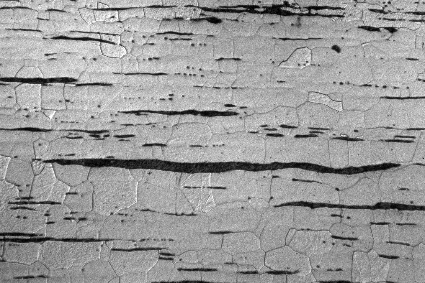 Optical micrograph of wrought iron, showing dark slag inclusion in ferrite.